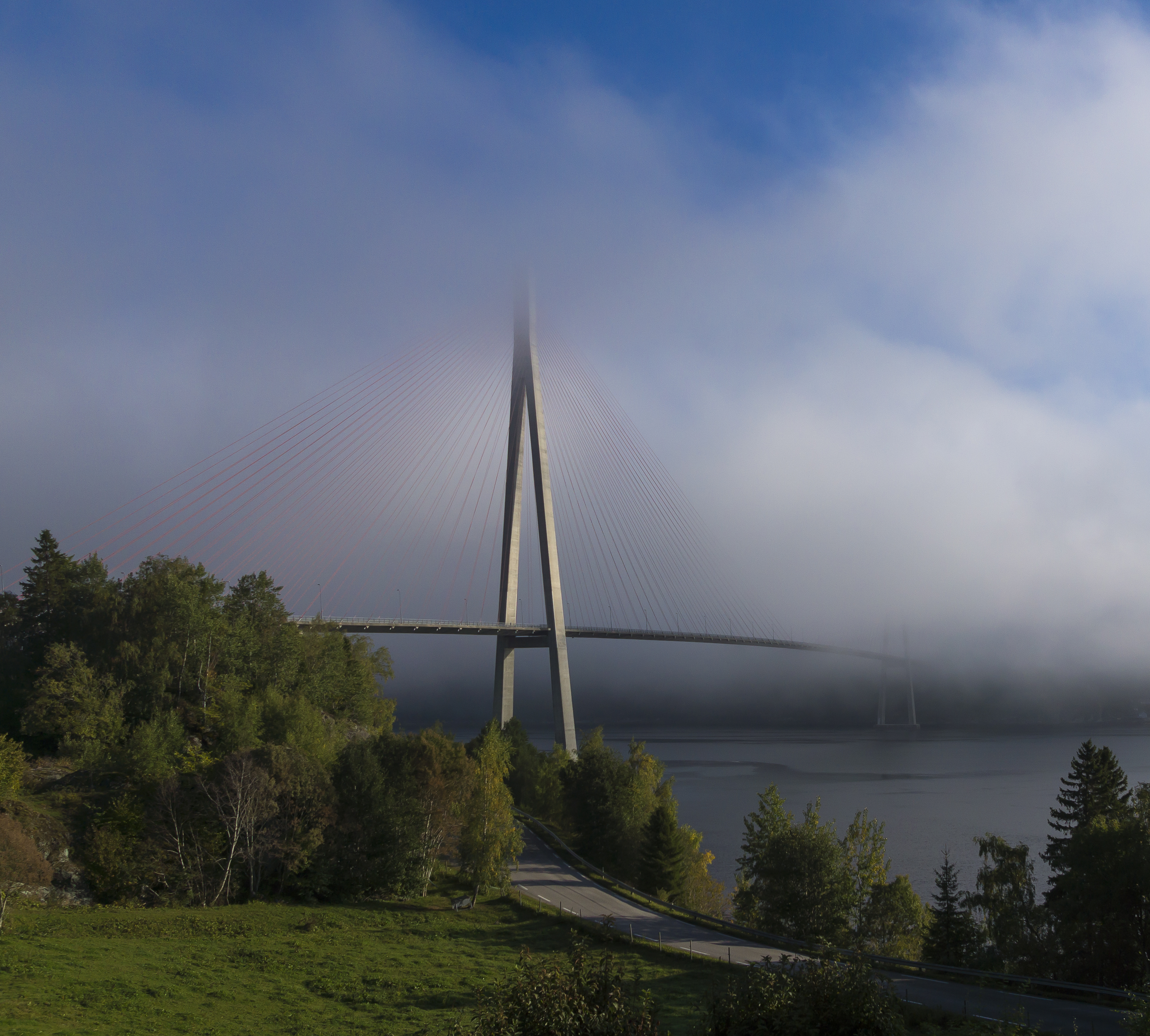 Skarnsund Bridge (Norwegian: Skarnsundet bru or Skarnsundbrua) a 1,010-metre long concrete cable-stayed bridge that crosses the Skarnsundet sound, in Inderøy, Norway.